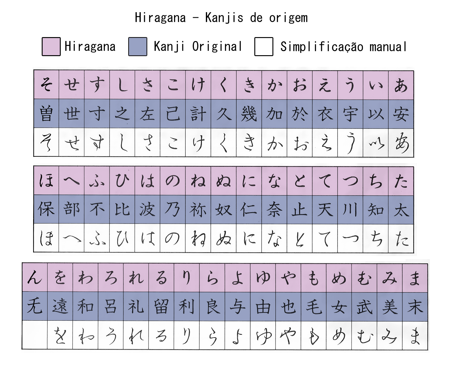 hiragana table